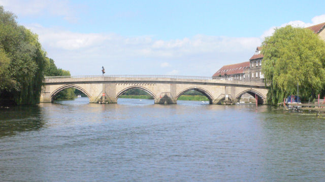 Huntingdon Bridge, near to Huntingdon, Cambridgeshire, Great Britain. Old Huntingdon Bridge taken from middle of River Great Ouse